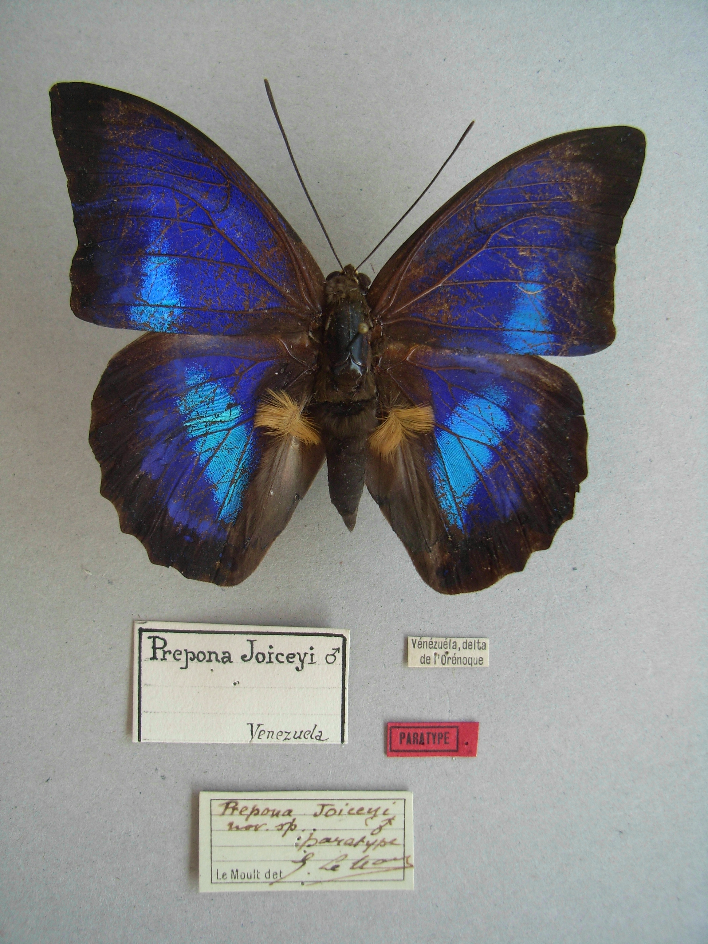 Prepona joiceyi Le Moult, 1932 now considered conspecific with Prepona laertes louisa Butler, 1870